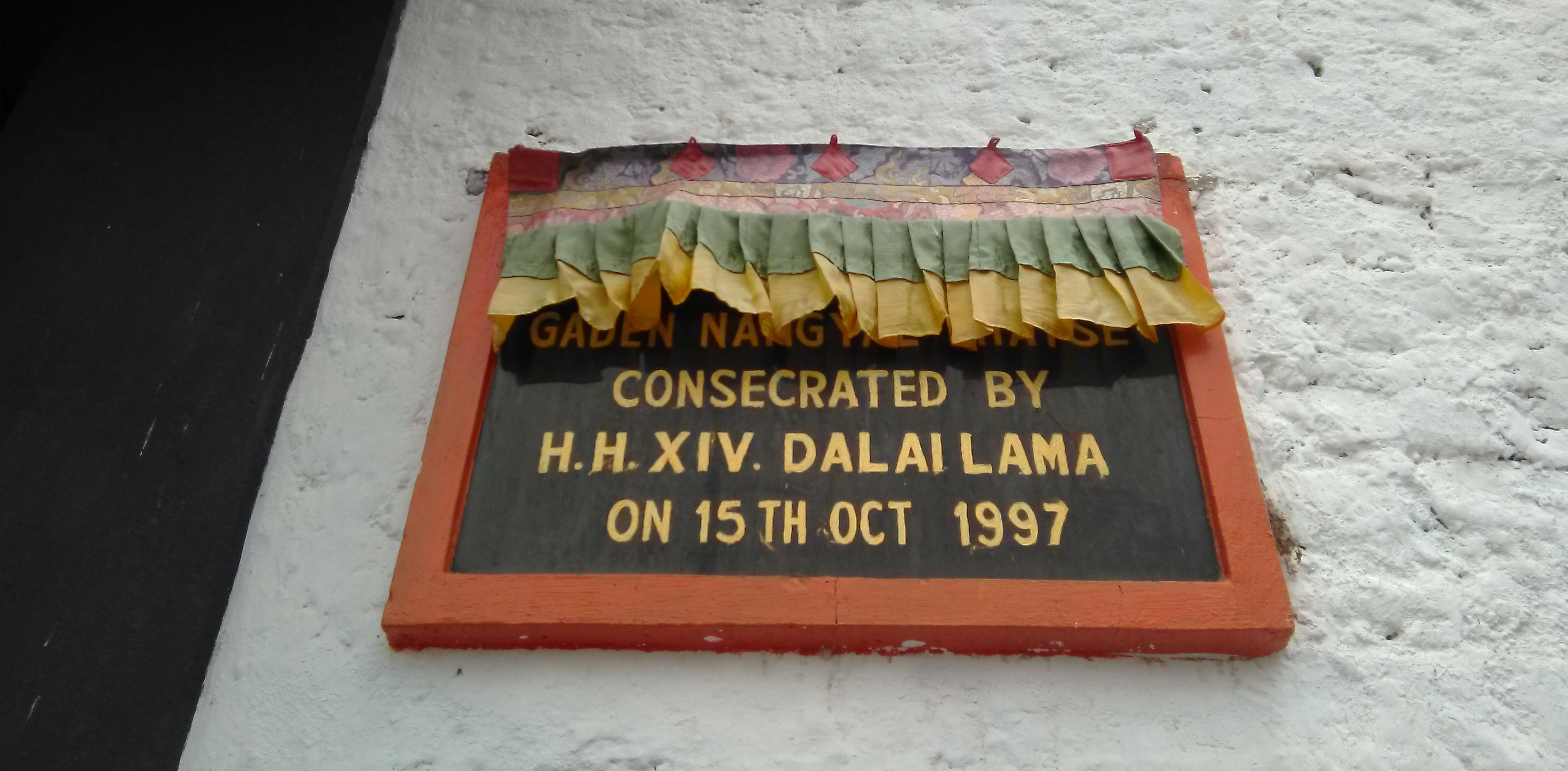 Monastery was consecrated by Dalai Lama XIV